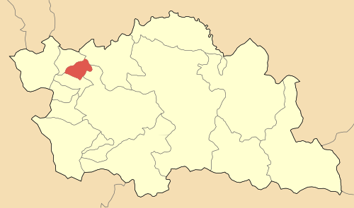 Locator map of Mesolouriou community (Κοινότητα Μεσολουρίου) at Grevena perfecture, Greece.